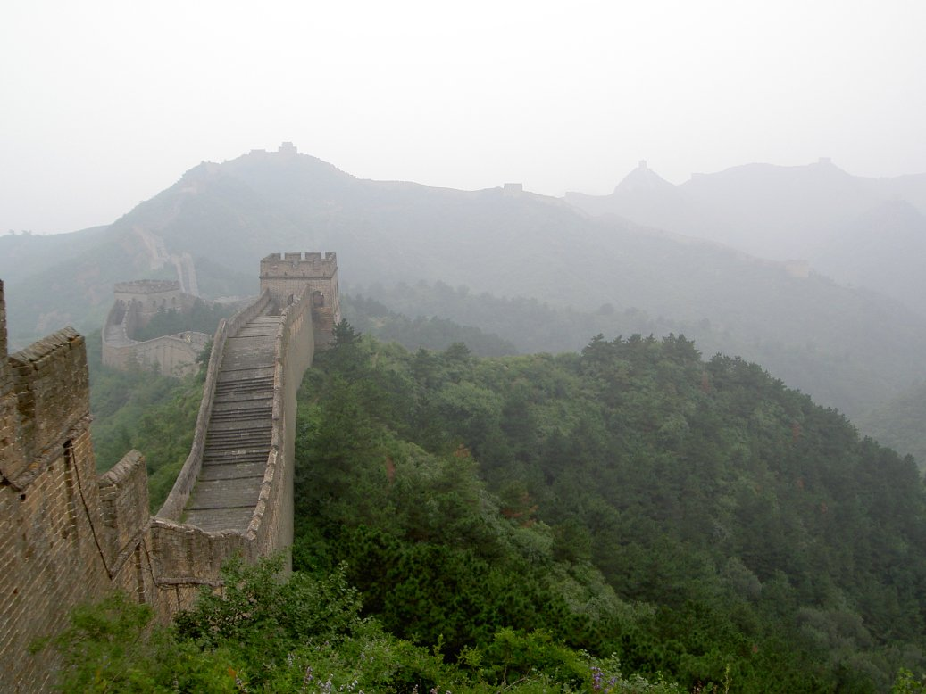 The Great Wall of China at Badaling